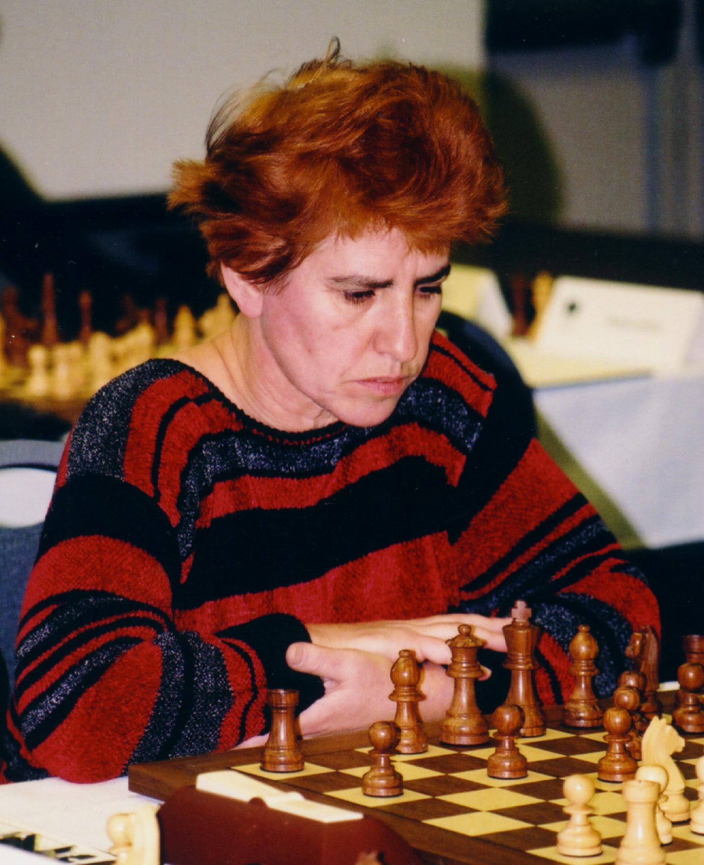 Esther Epstein, former USSR Chess Champion, at the 2003 U.S. Chess Championships in Seattle, Washington.